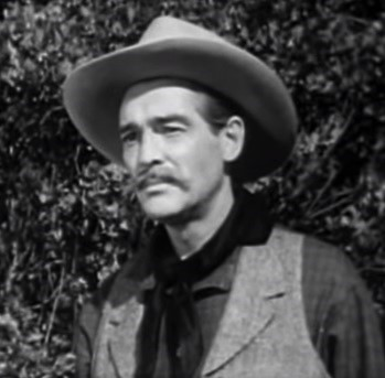 Rory Mallinson in the TV series Stories of the Century, episode Jim Courtright (cropped screenshot)